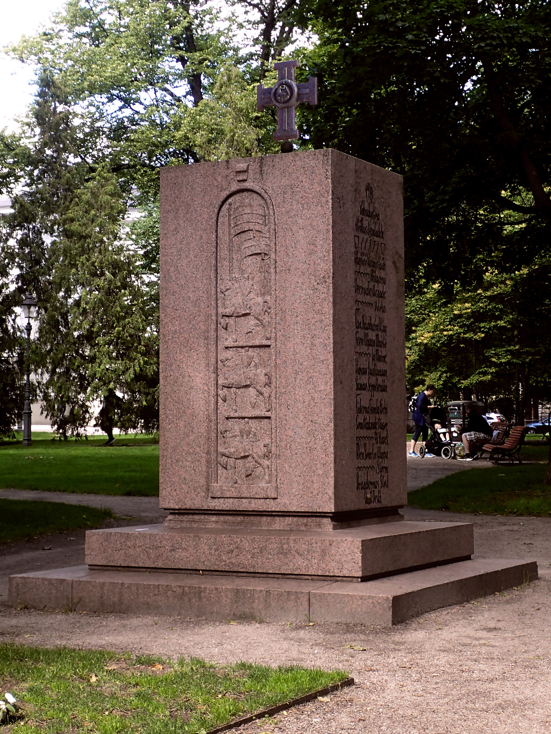 The Estonian Freedom Cross of the memoria has been turned in the right direction in July 2019.